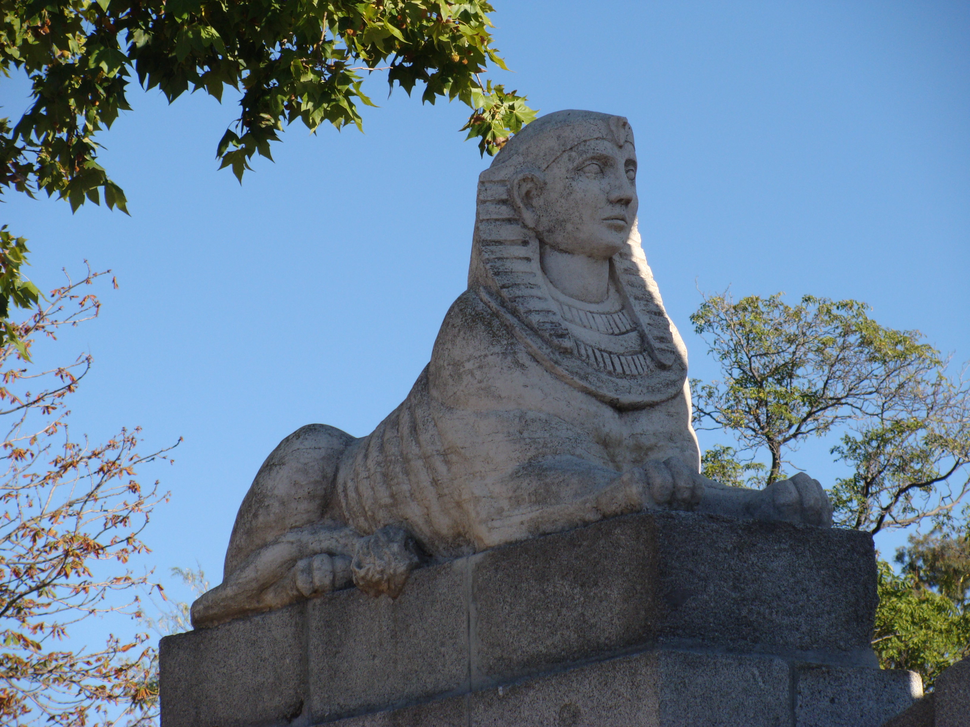 Egyptian fountain, in Parque del Buen Retiro, in Madrid